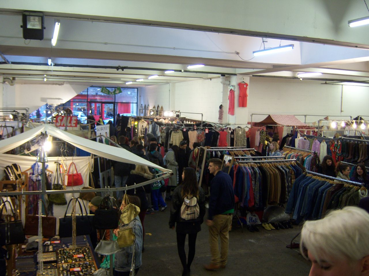 A small portion of the Sunday UpMarket in the Truman Markets.